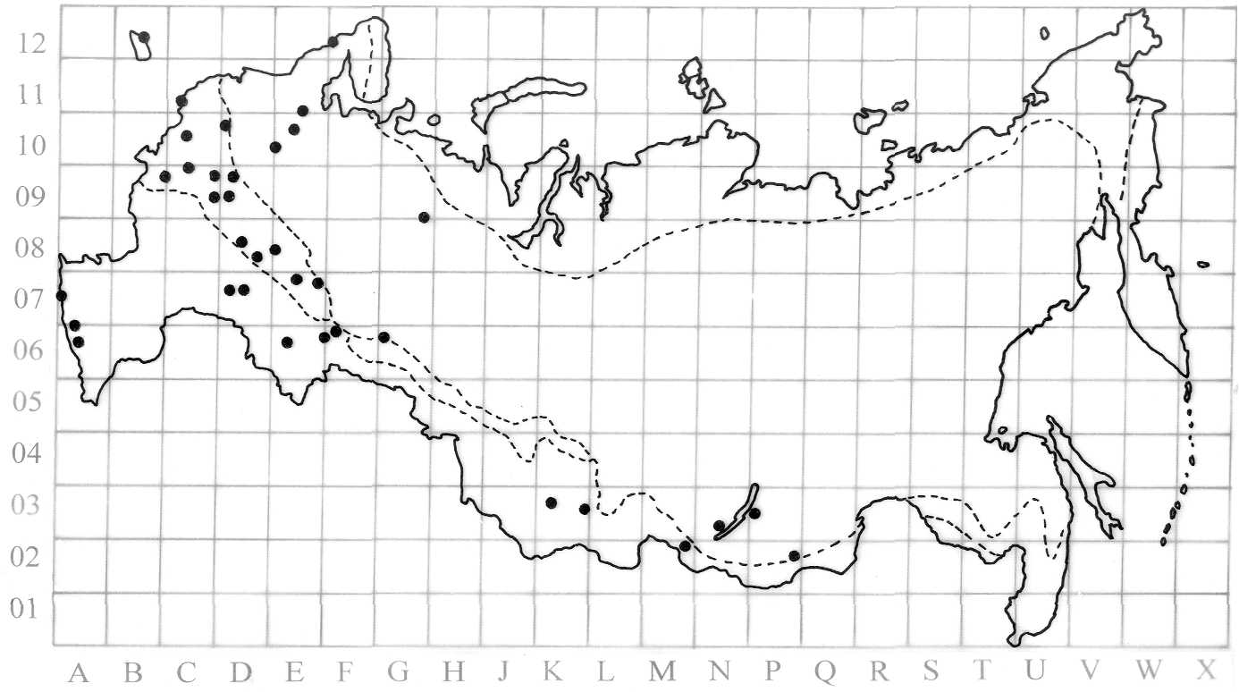 Map of Russian national parks (until 2006, newest have not been mapped yet